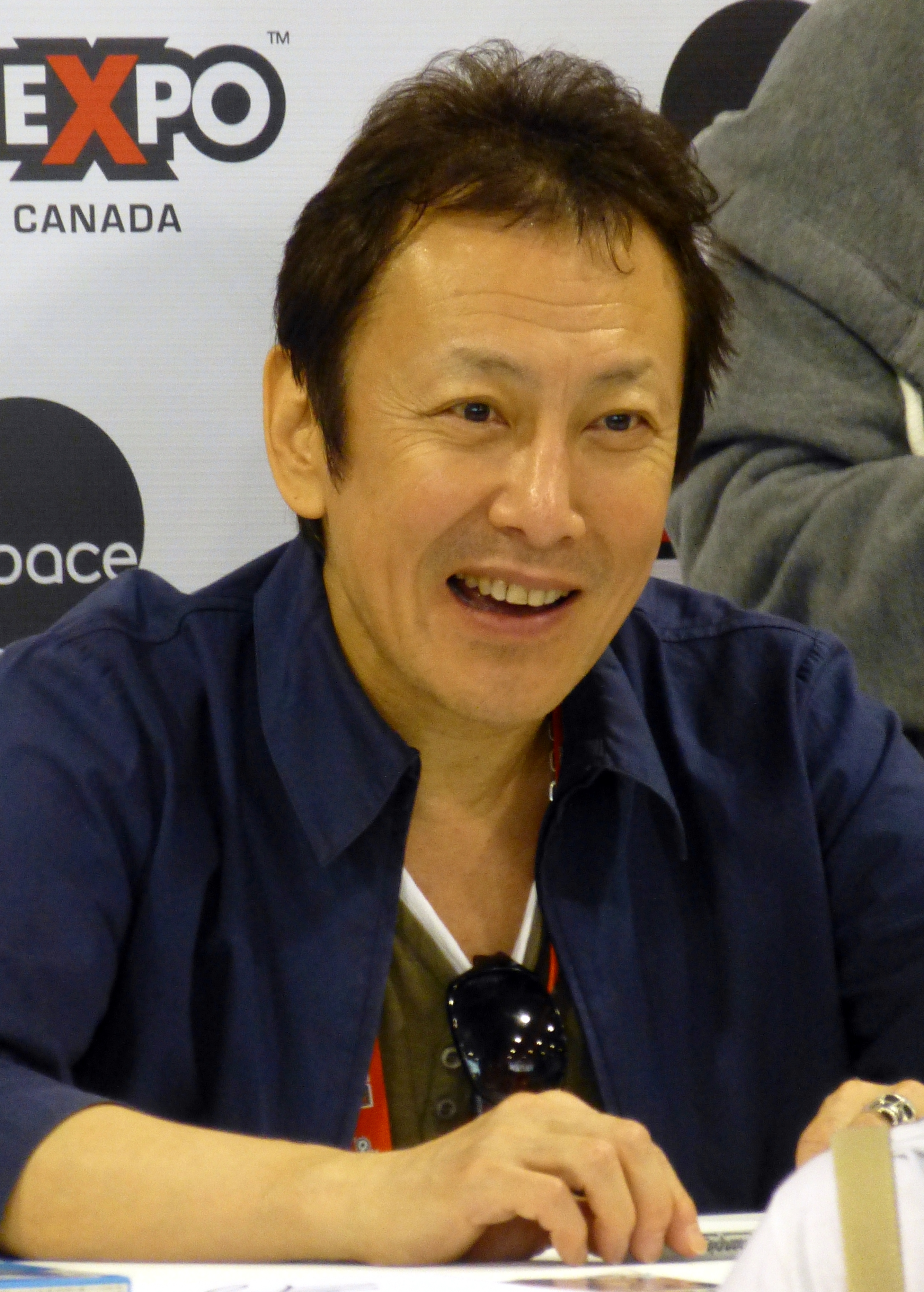 Voice actor noted for Vegata in Dragonball Z 2014 Fan Expo Canada